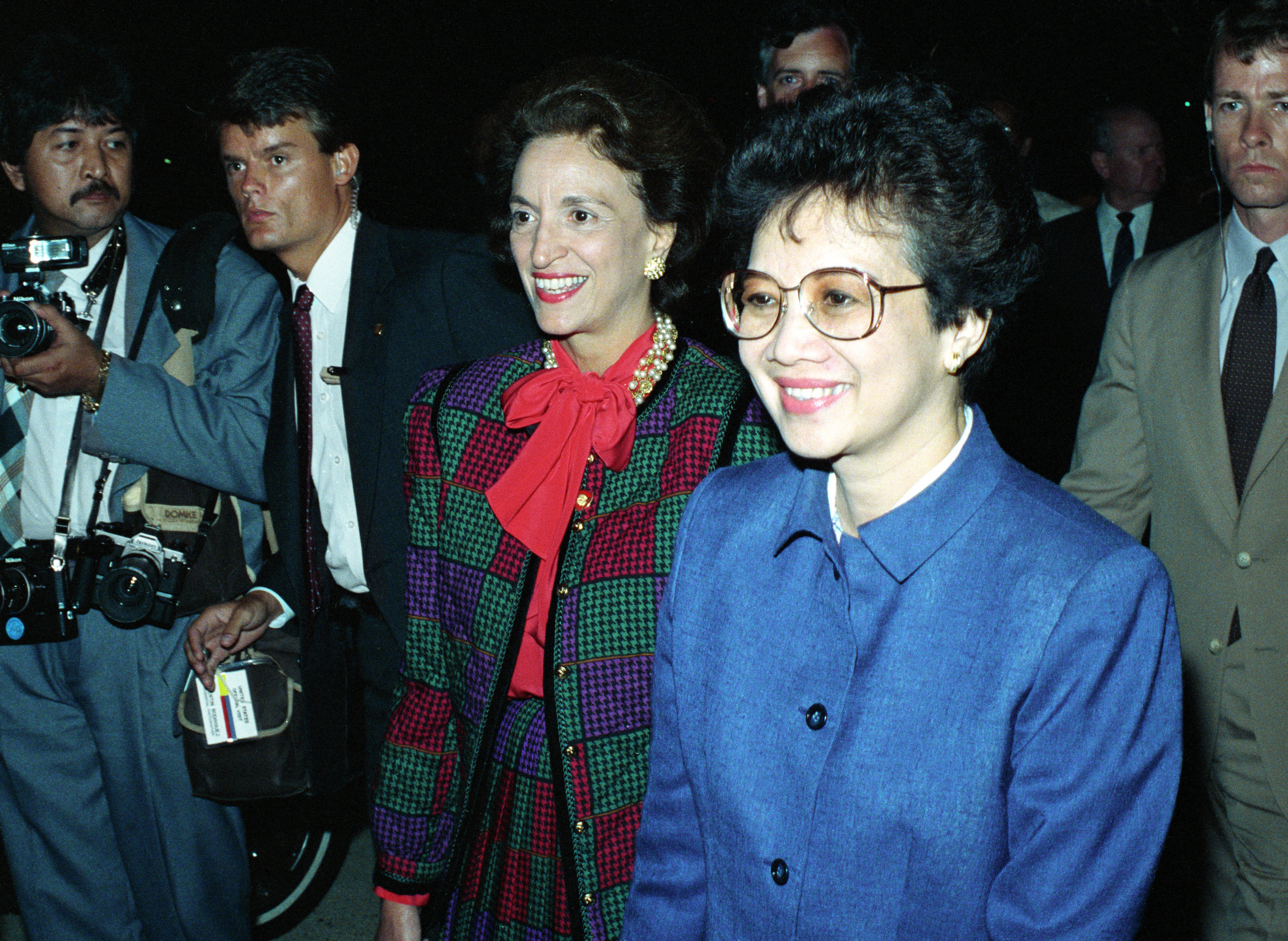 Philippine President Corazon C. Aquino greets officials as she walks across the flight line to the passenger terminal at Andrews Air Force Base.